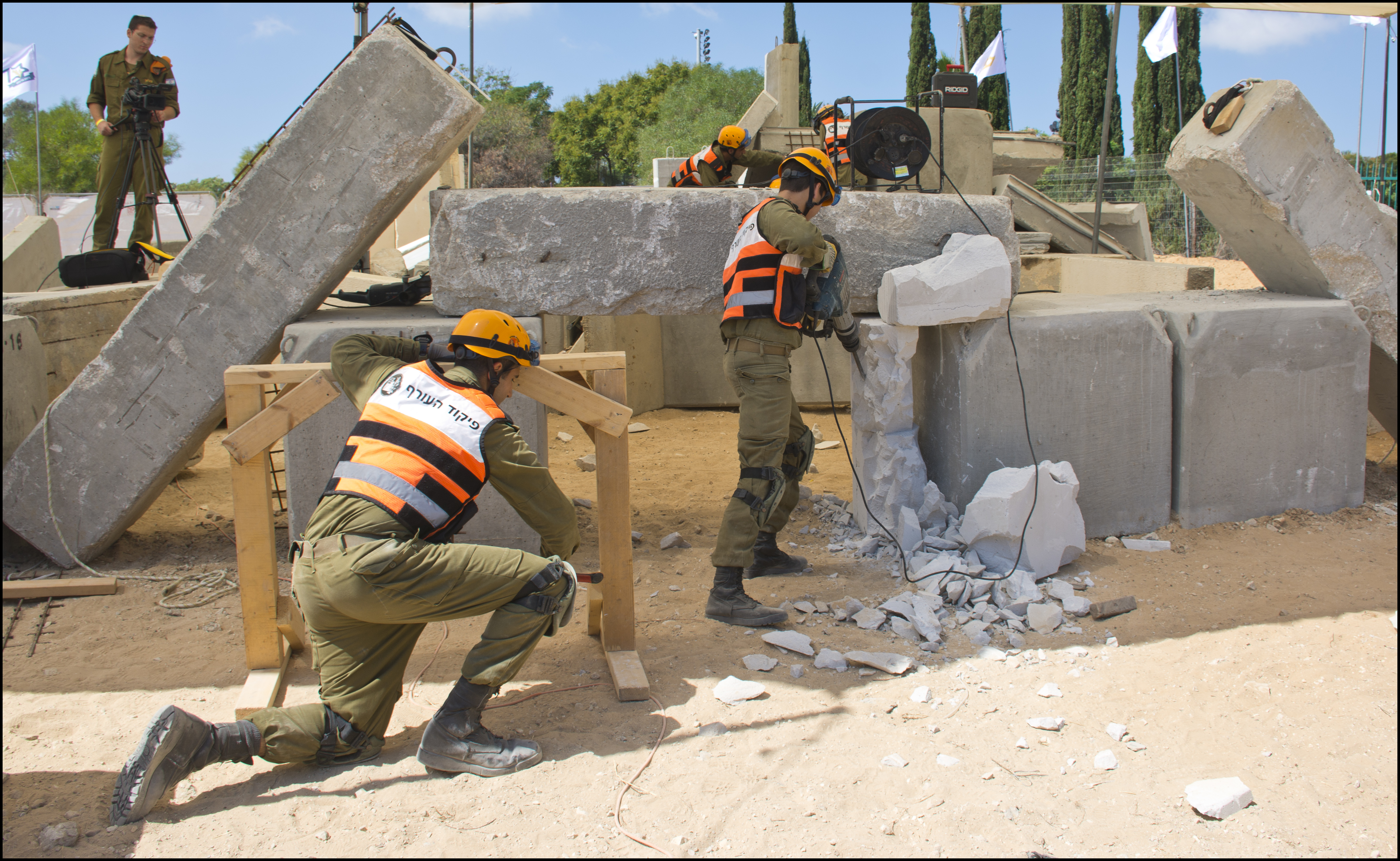 Home Front Command - Rescue Operations Division demonstrate how to save trapped humans under debris, Our IDF 70, Israel